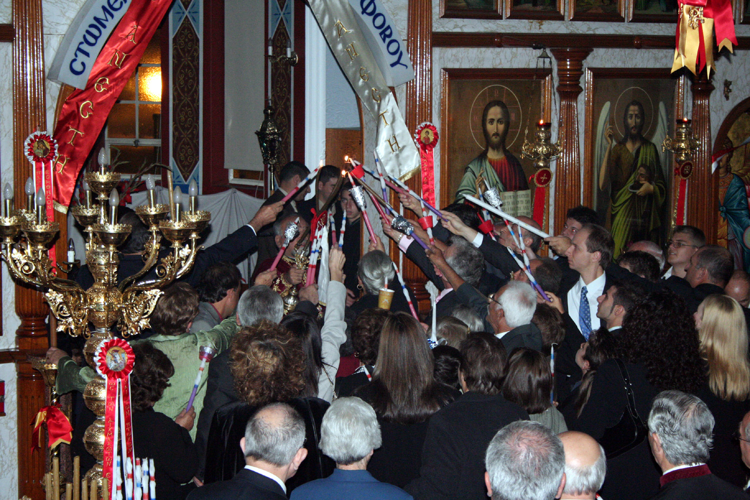 People receiving the Holy Light at Easter from Father Diogenis at St. George Greek Orthodox Church, Adelaide